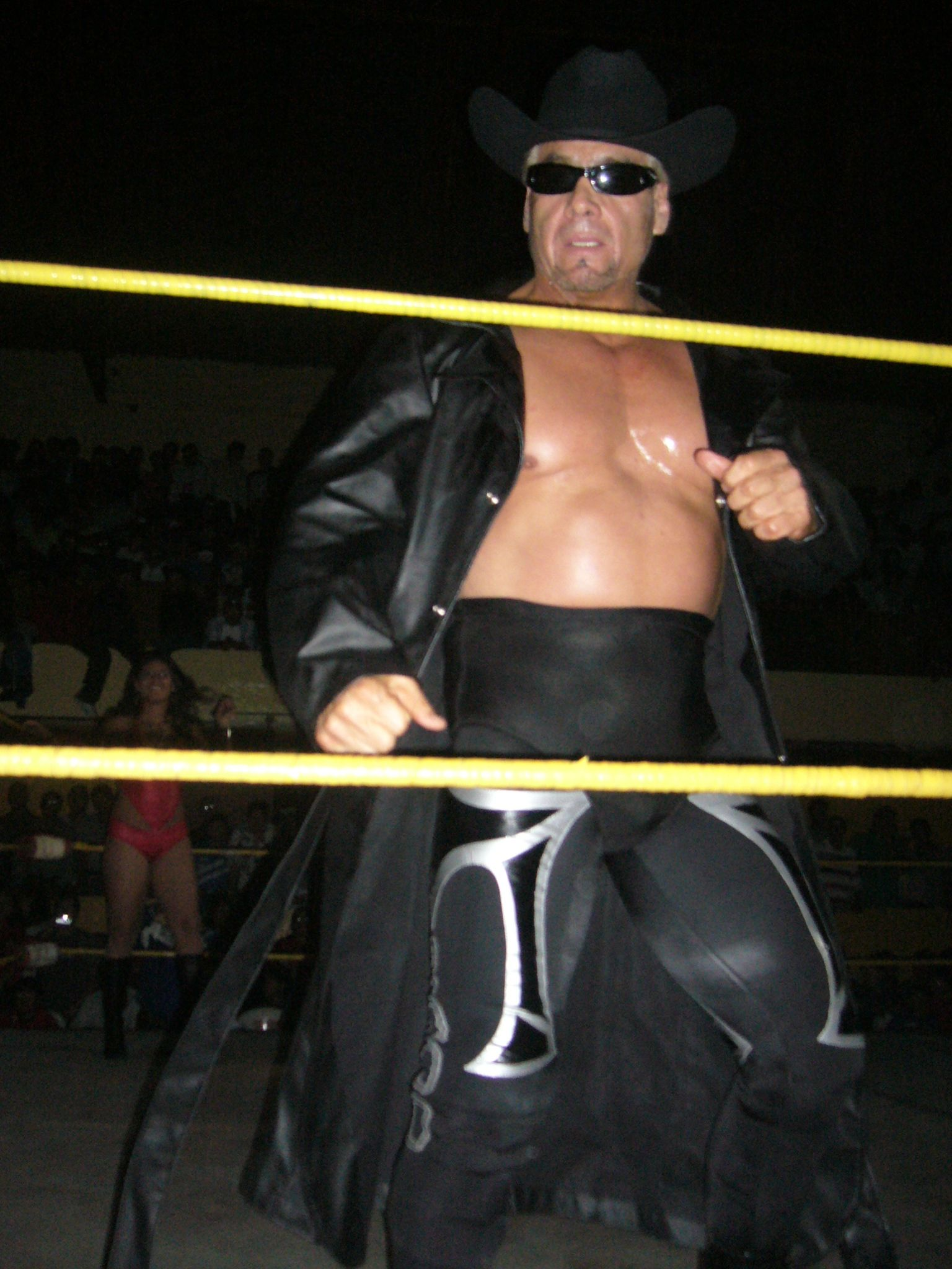 Picture of wrestler Universo 2000